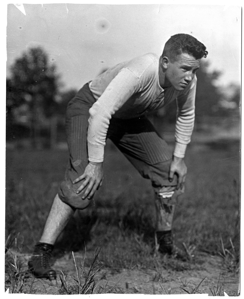 Georgia Tech Golden Tornado football player and center "Pup" Phillips, circa 1917